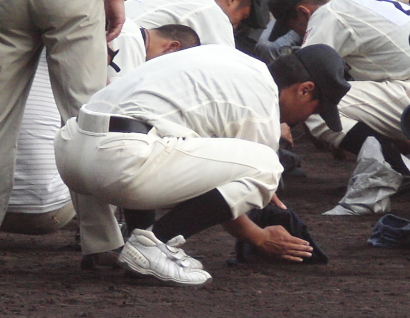 High_school_baseball_in_Hanshin_Koshien_Stadium2007 第89回全国高等学校野球選手権大会・敗退チームの甲子園の土を持ち帰るナインの様子